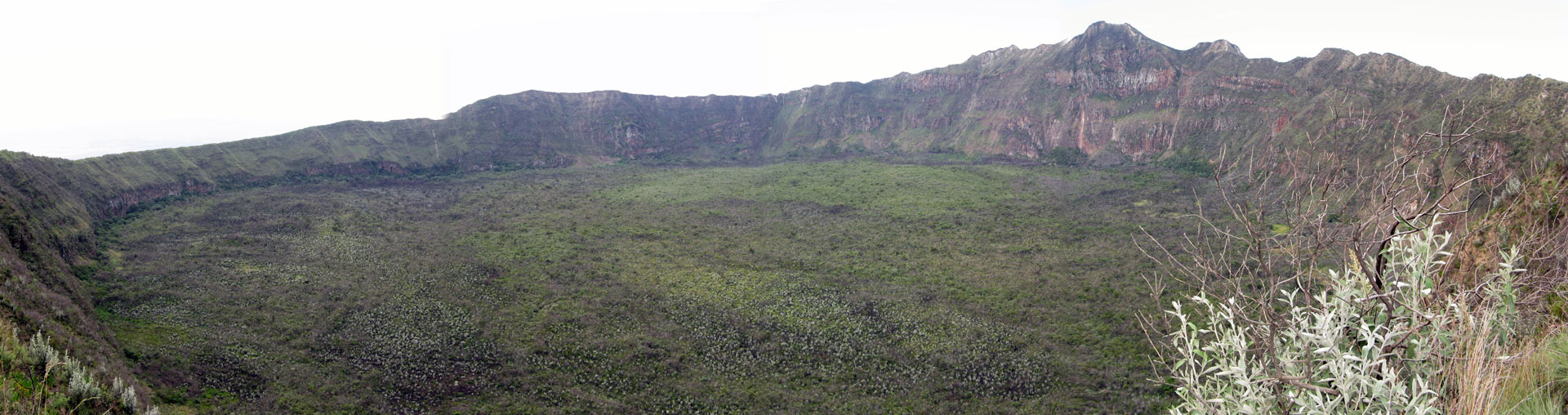 Mount Longonot crater panoramic view